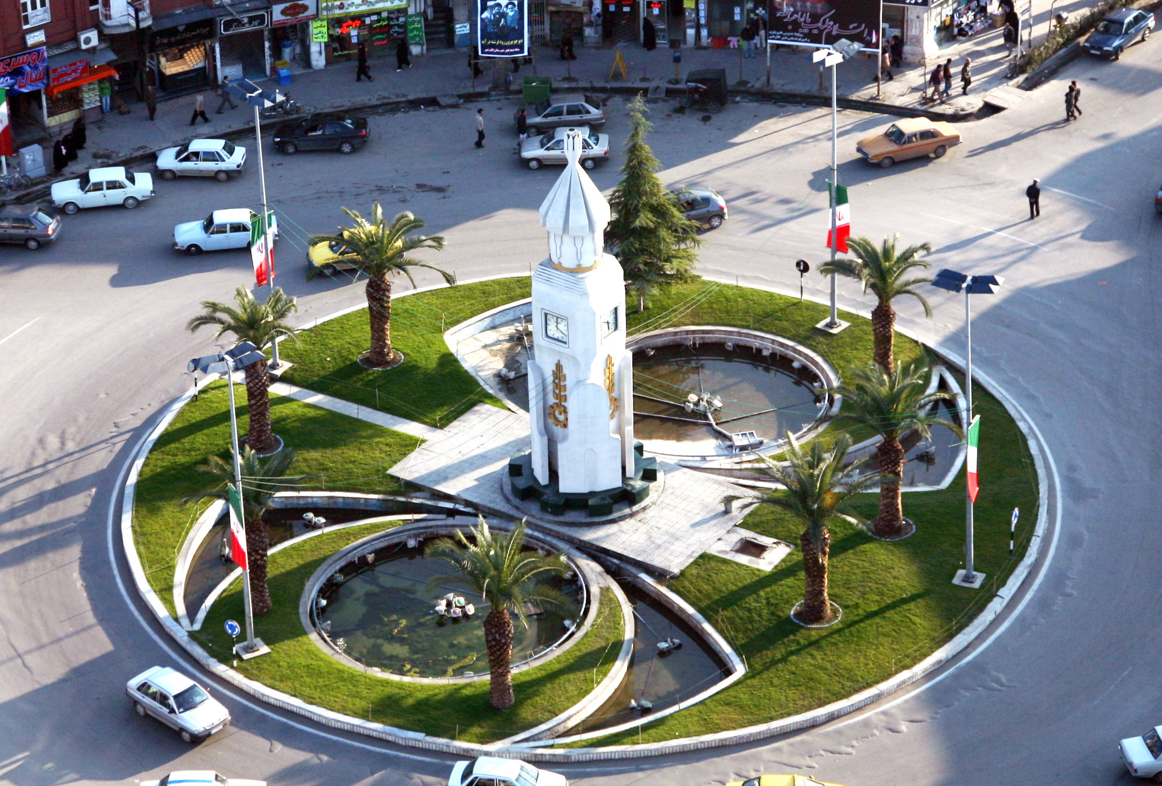 Taleghani square in Qa'em-Shahr.